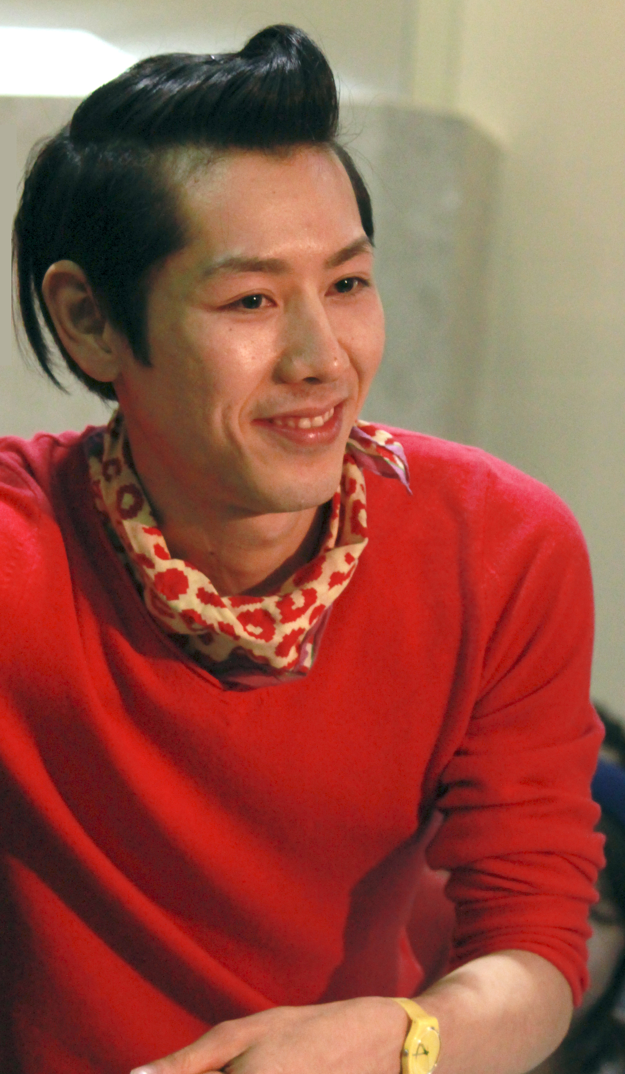 Takeru Kobayashi at the competitive eating event "Donkey Kong Country Returns Banana Eating Challenge with Takeru Kobayashi", RioCan Yonge Eglinton Centre, Toronto.